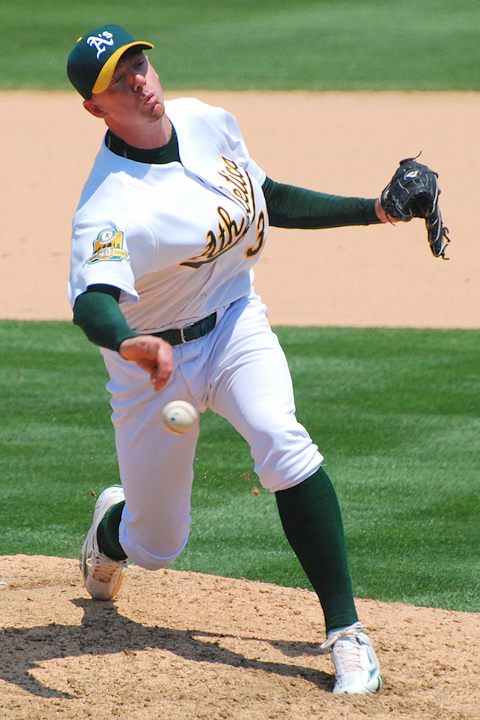 Description Brad Ziegler pitches against the Seattle Mariners DateJuly 10, 2008SourceI created this work entirely by myself.AuthorJames Venes 02:32, 6 August 2008 . . Cakeordeath34 . . 480×720 (217 KB) Brad Ziegler pitches against the Seattle Mariners